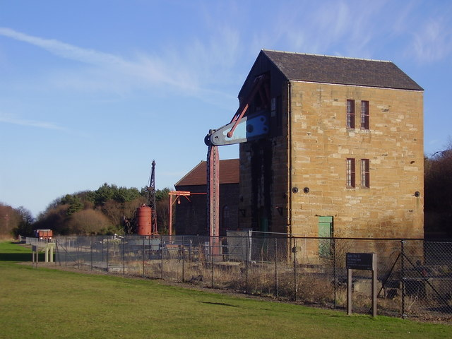 The mighty Cornish beam engine at the former Prestongrange Colliery